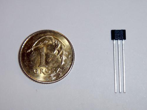 Hall effect sensor compared to a coin